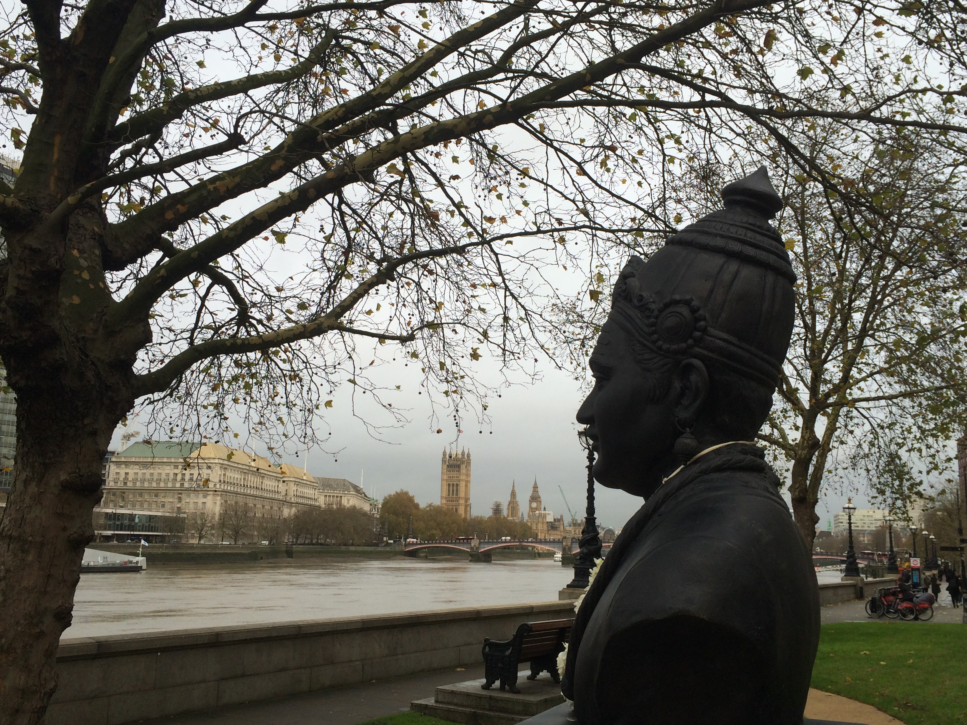 Statue of the Kannada poet and social reformer Basaveswara (also known as Basava) with the River Thames and the UK Parliament in the background